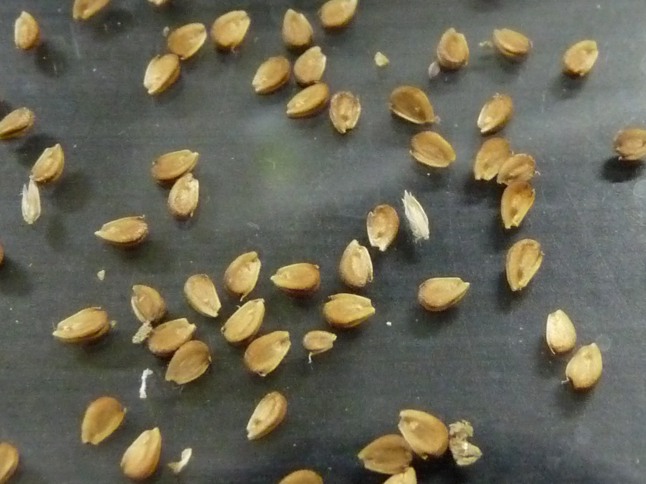 Achenes(Seeds) of Alisma canaliculatum